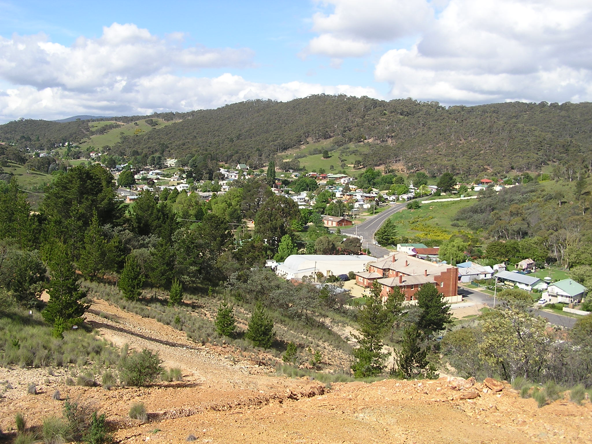 Captains Flat, New South Wales, Australia: view from the mine hill, November 2005. Picture taken by AYArktos